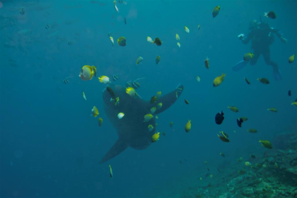 Mola-Mola Sunfish